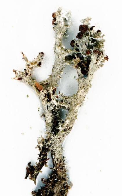 Cladonia squamosa Hoffm., 1796 Photograph of a herbarium specimen. Cladonia squamosa was growing on soil on a rock along Trail 517, about 1 mile from Forest Service Road 19, in the Dolly Sods Wilderness Area of the Monongahela National Forest, Randolph County, West Virginia, USA. Collected and determined by E.C. Uebel (No. U-42, 19 May 2001)